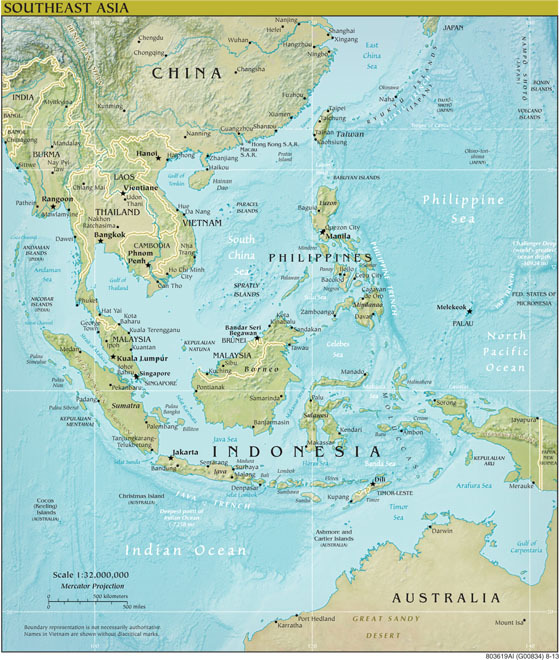 SE Asia political map.